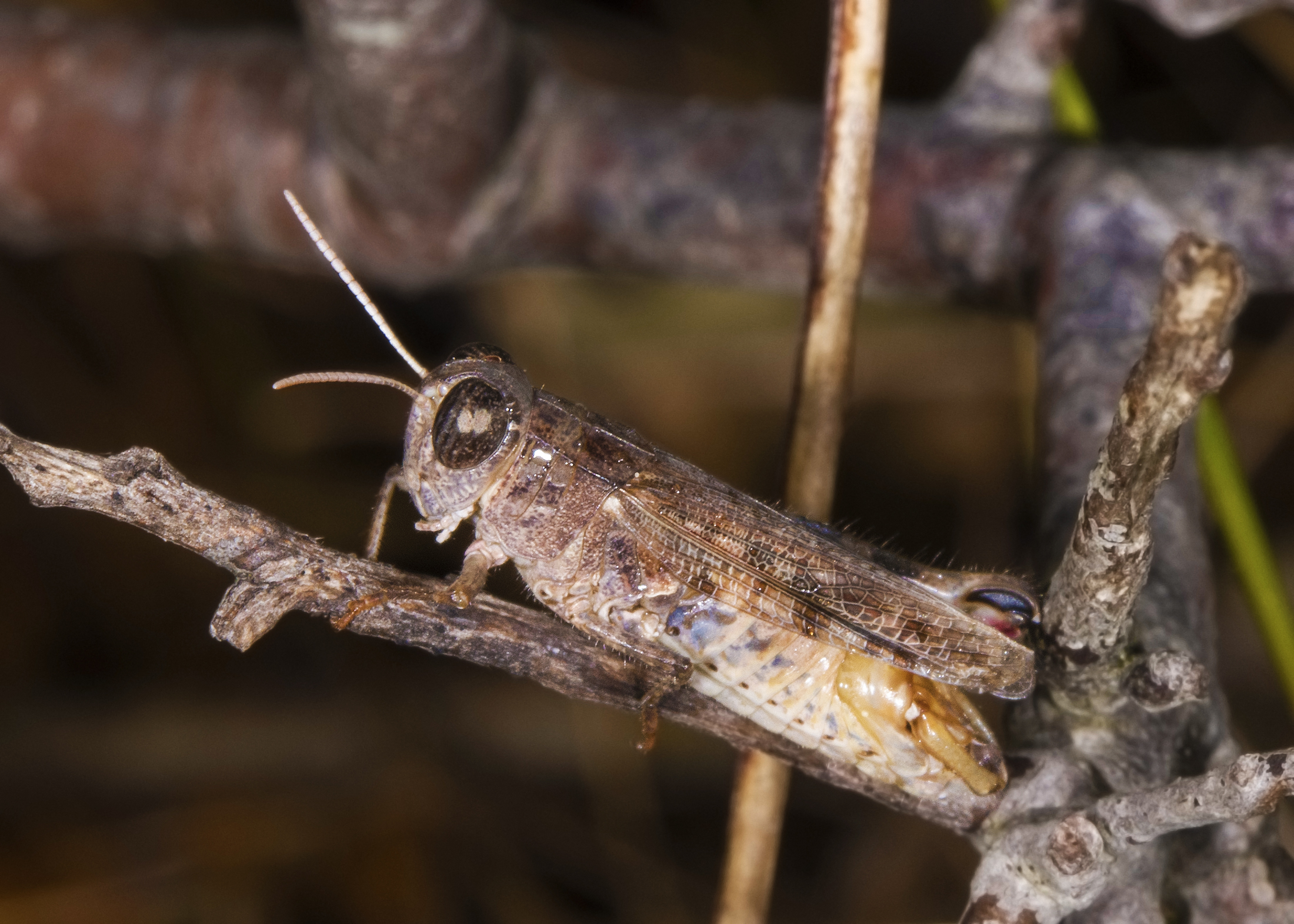 Calliptamus barbarus (Occitan Grasshopper), male. Forest of Sète, Sète, Hérault, France.